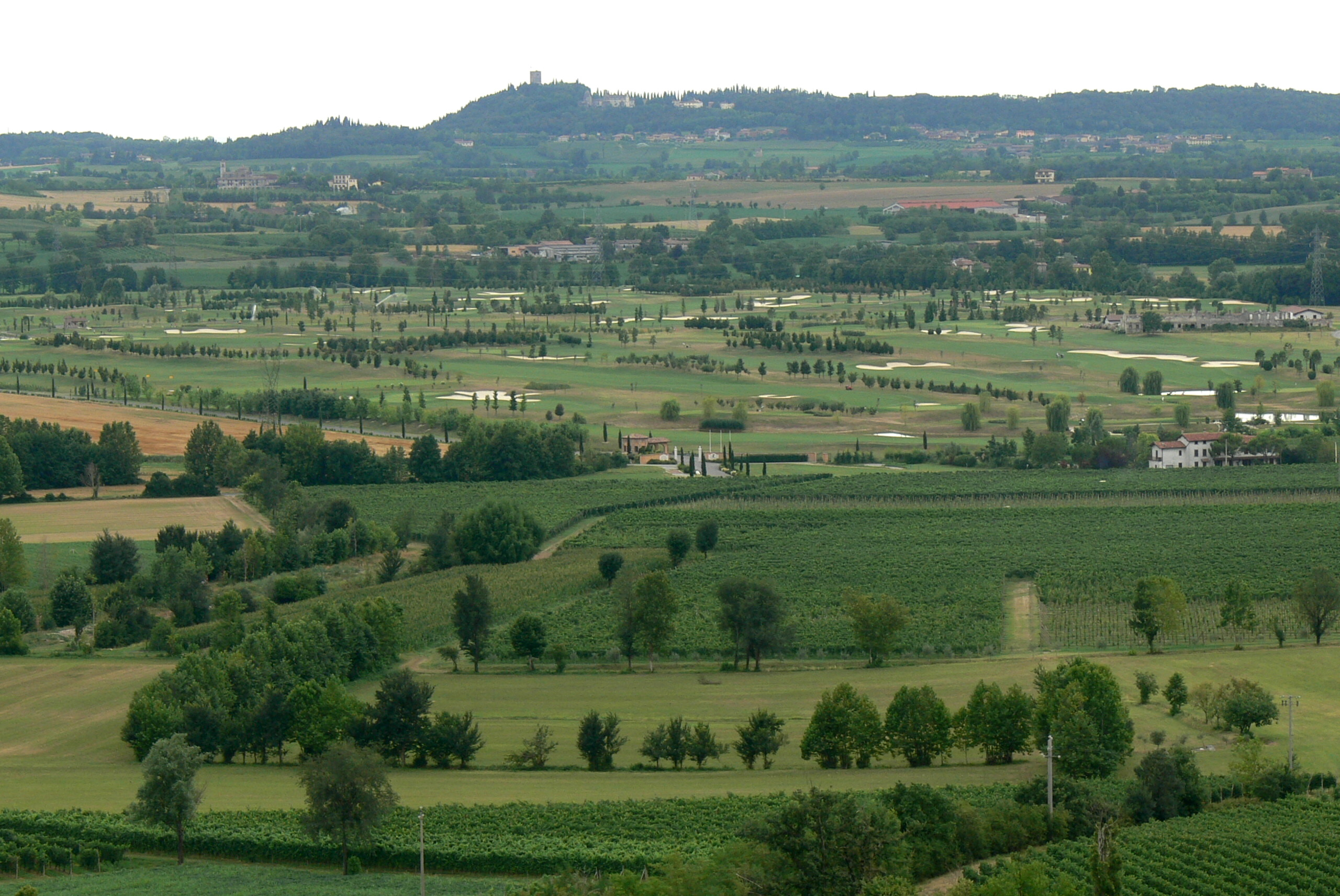 San Martino della Battaglia ( Italy ). View from the tower: Solferino.